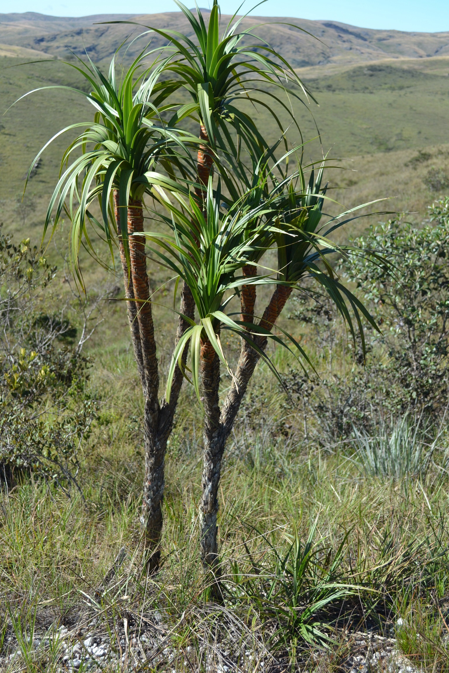 Photo taken of a species of Velloziaceae at Serra no Cipó in Minas Gerais